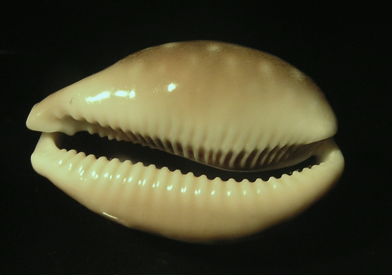 Lyncina vitellus(Linnaeus, 1758) , a cowry from the family Cypraeidae; Vietnam